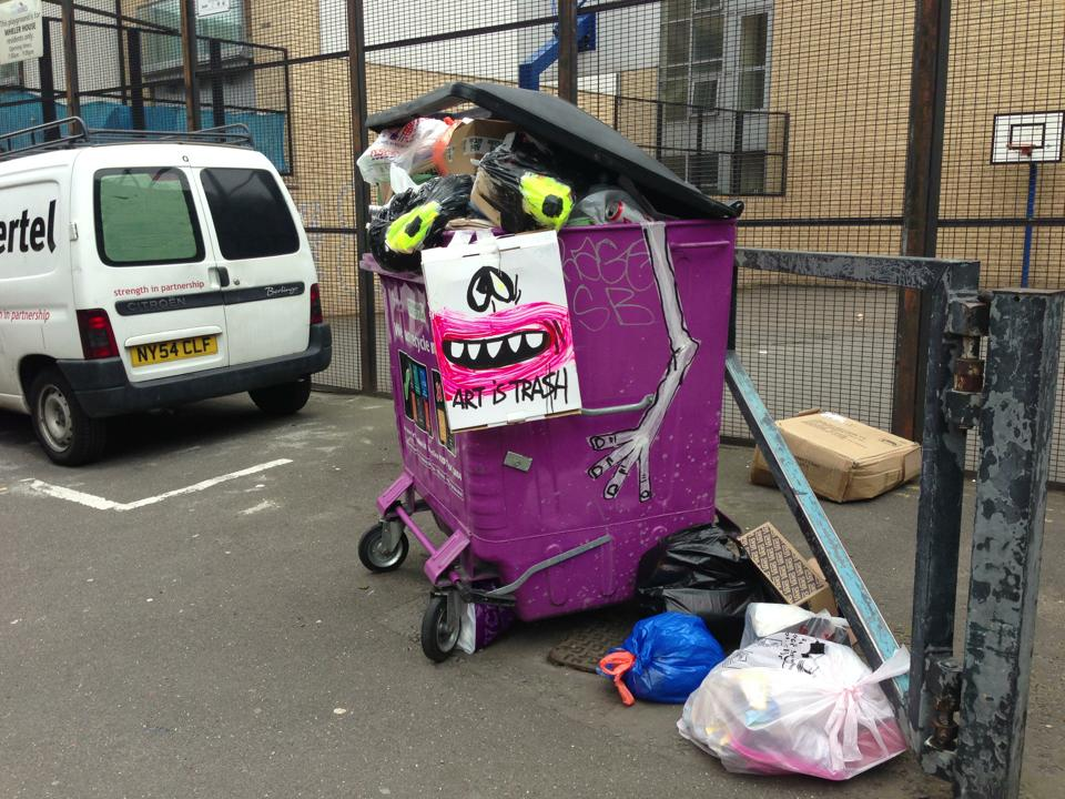 One the very temporary Art Is Trash pieces. Quaker Street.